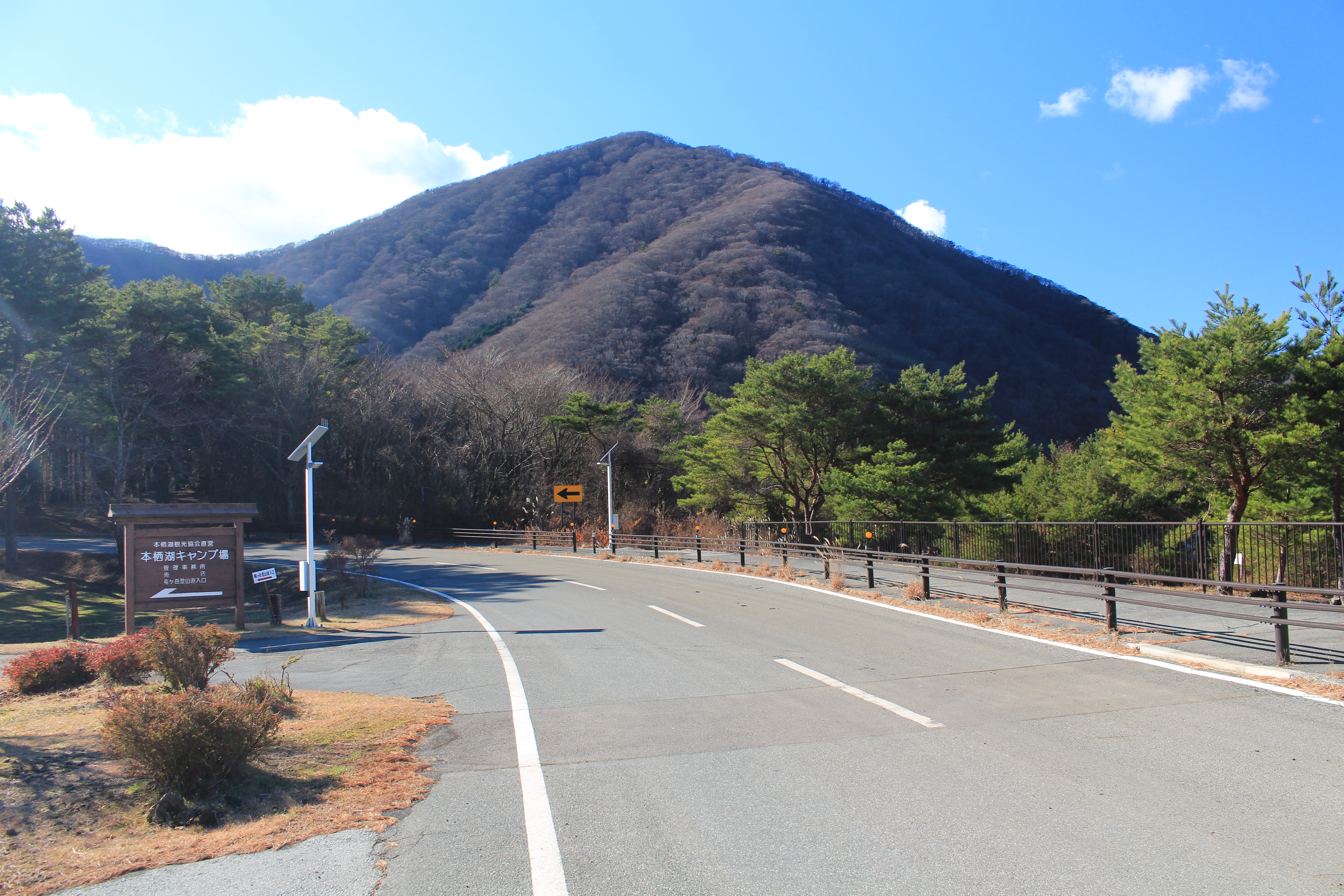 Mount Ryu seen from Lake Motosu Campsite in Fujikwaguchiko, Yamanashi prefecture, Japan.